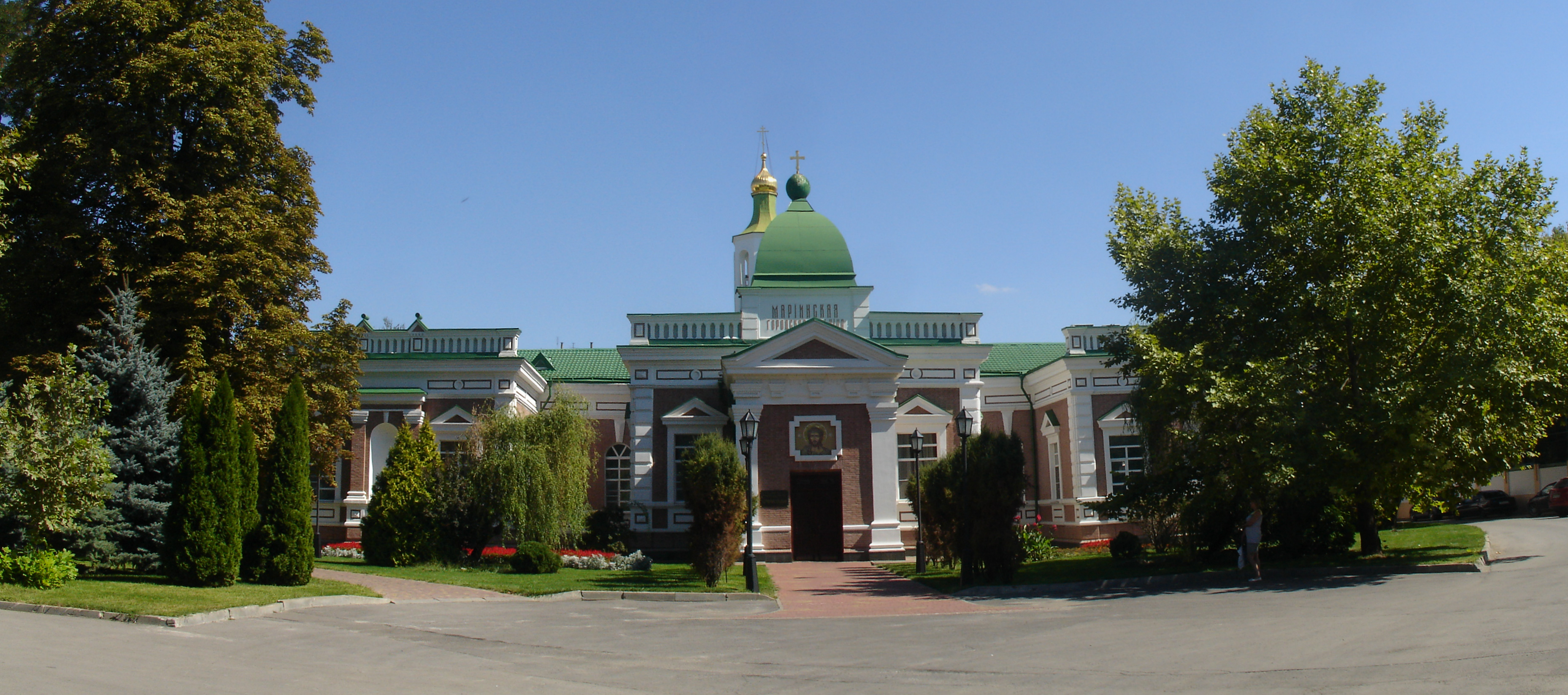 The main building of historical Mariinskaya Hospital (Nahichevan-on-Don) (western side, front door). Now Administration of Rostov Scientific Research Oncologic Institute occupies this building at Bolnichniy lane 88, Rostov-on-Don, Russia.